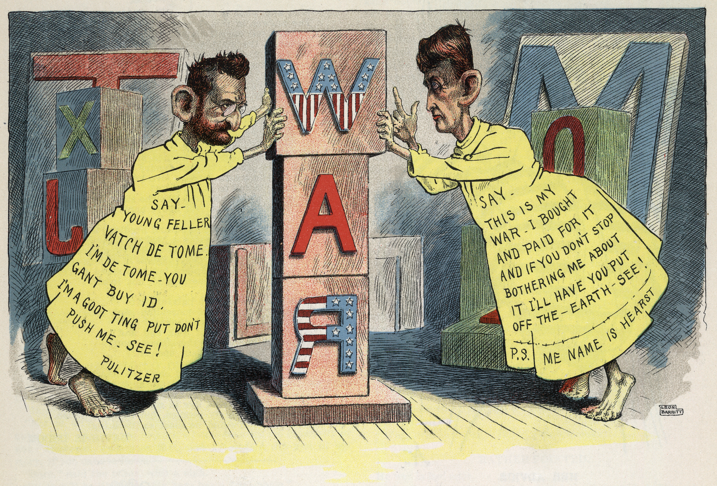 Editorial cartoon by Leon Barritt, 1898. Newspaper publishers Joseph Pulitzer and William Randolph Hearst, full-length, dressed as the Yellow Kid (a popular cartoon character of the day), each pushing against opposite sides of a pillar of wooden blocks that spells WAR. This is a satire of the Pulitzer and Hearst newspapers' role in drumming up USA public opinion to go to war with Spain.